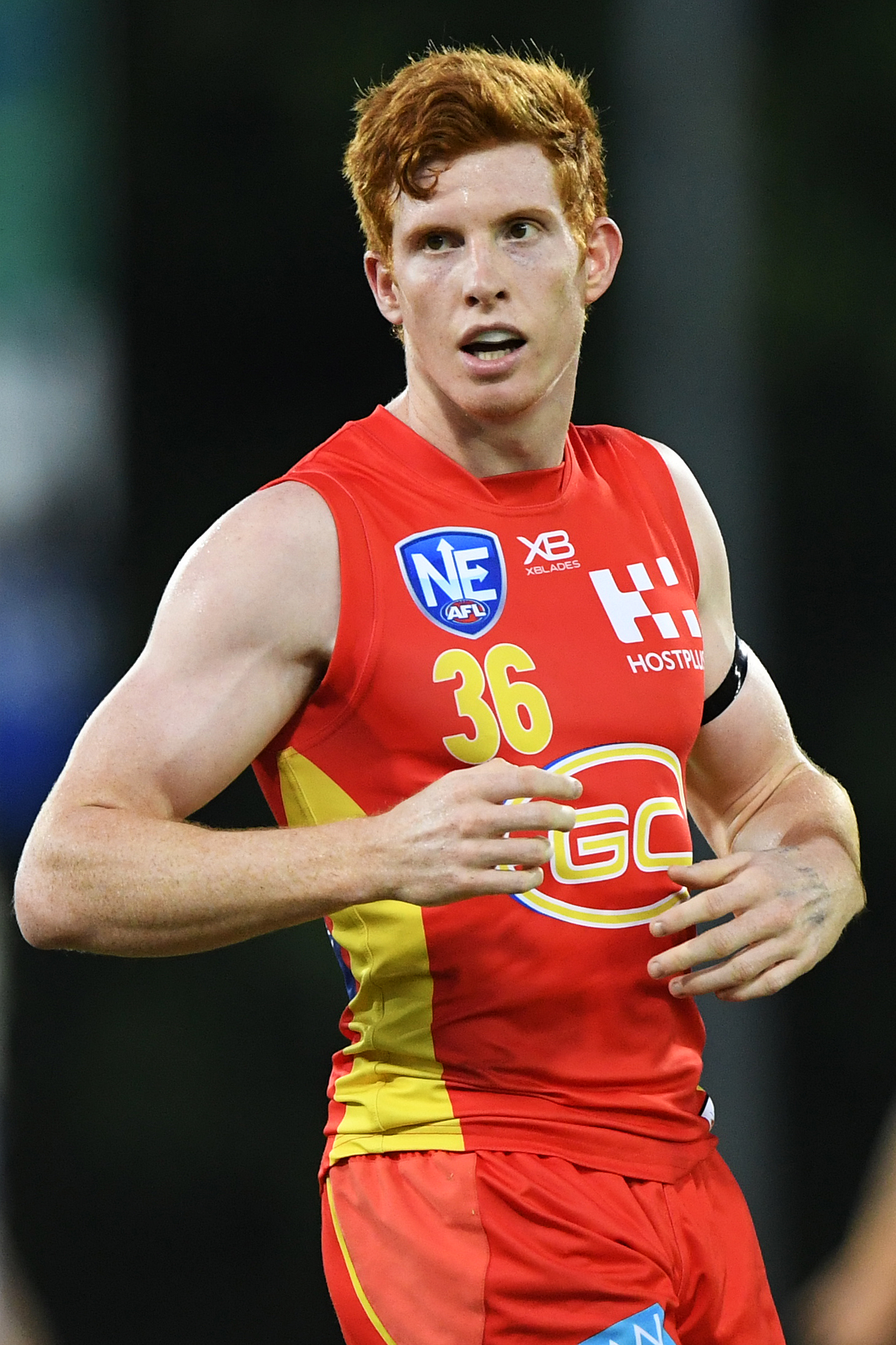 Josh Schoenfeld of Gold Coast during the 2019 NEAFL round 5 match between NT Thunder and Gold Coast at TIO Stadium on Saturday, 4 May 2019 in Darwin, Australia.